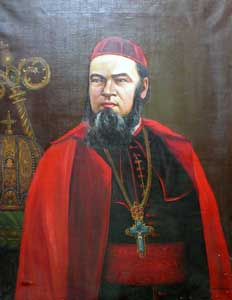 Iosif_Papp-Szilágyi (1813–1873), Bishop of the Diocese of Oradea Mare of the Romanian Greek Catholic Church from 1862 to 1873.